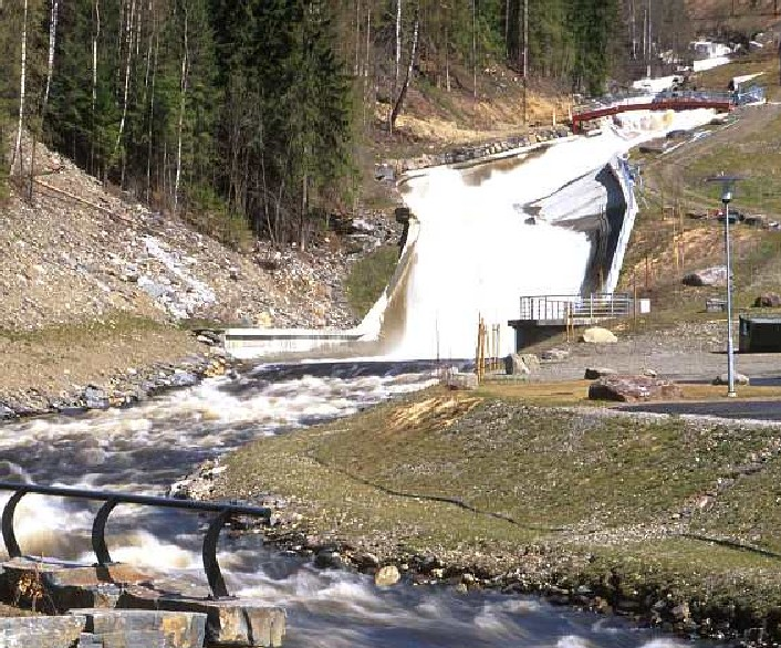 Image Note: Embankment to protect against flooding from 1998 at Moksa, Øyer, eastern Norway Bildenotat: Forbygning mot flom ved elva Moksa, Øyer kommune Date/Dato: Photographer/Fotograf: Arne Trond Hamarsland/NVE Feel free to use the photos, but please make sure you attribute the photographer and mention NVE as the source. Bruk gjerne bildene, men vennligst oppgi fotografens navn og angi NVE som kilde. Format: Digital Archive/Arkiv: Image ID/Bilde ID